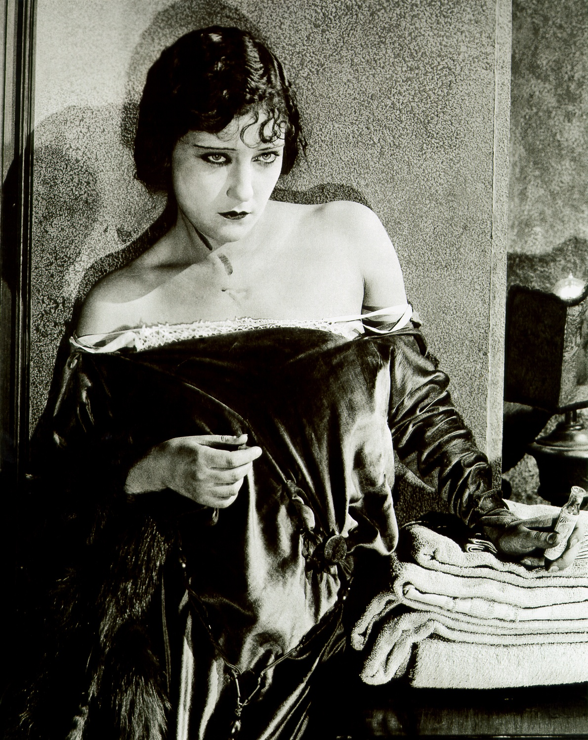 Actress Gloria Swanson in a frame or production still from the 1920 film Why Change Your Wife?.